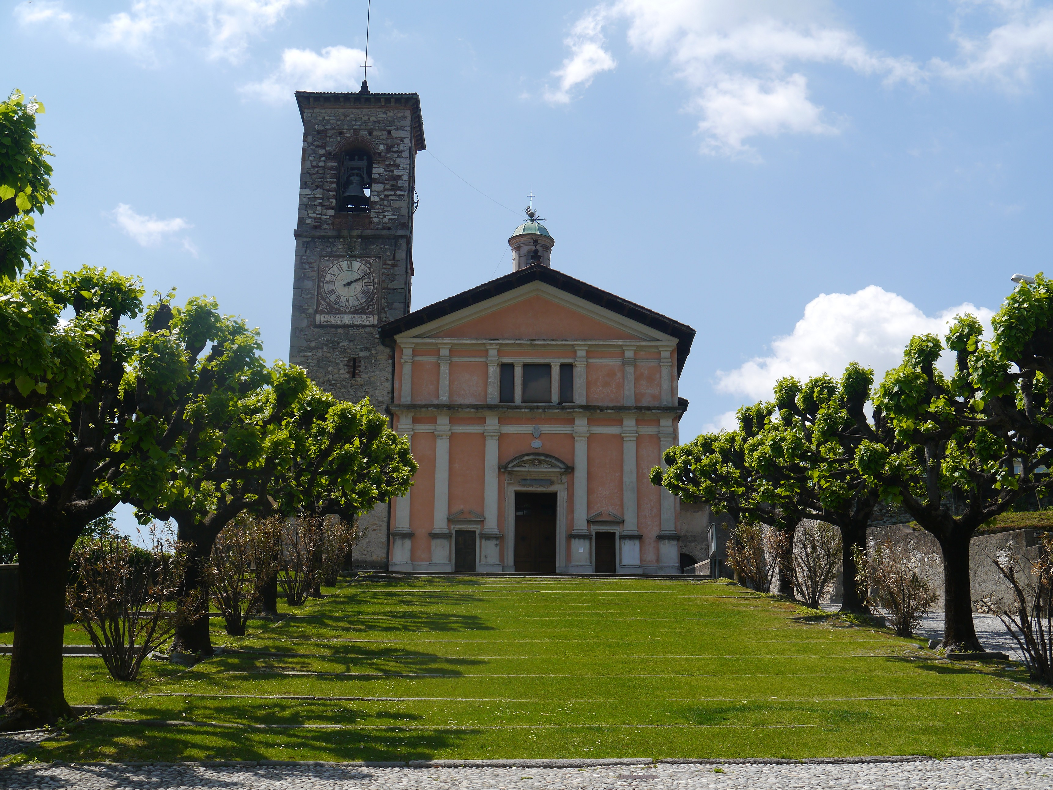 Facade of the Basilica Santa Maria dei Miracoli, Morbio Inferiore